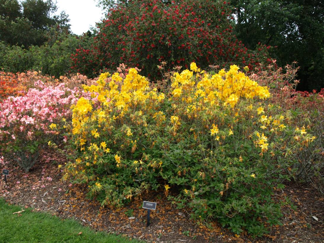 Auckland Botanic Gardens, a Rhododendron (cv. Ilam Melford Yellow). In the background: bottlebrush Callistemon citrinus cv. Splendens Image info Location/Date Auckland Botanic Gardens, Manurewa, Auckland, New Zealand, 2008/11/10 Taken with Olympus E-410 Original picture 3648x2736 pixels Photographer Dick Bos Conditions Please inform the photographer before using this image outside Wikimedia. Licensing